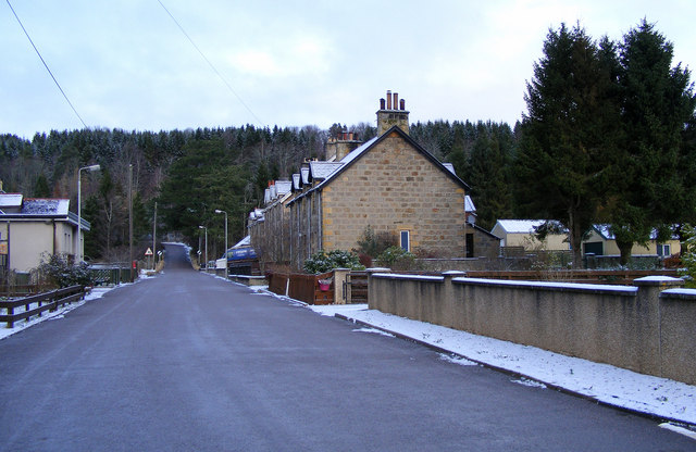 Carron A hamlet by the river Spey, it once had a rail link but this was subject to Dr. Beeching's axe in the sixties.